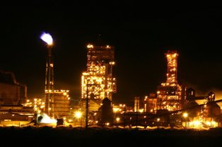 Mittal Steel factory near Saldanha at night. (Copyright: Gerda Kirchner)